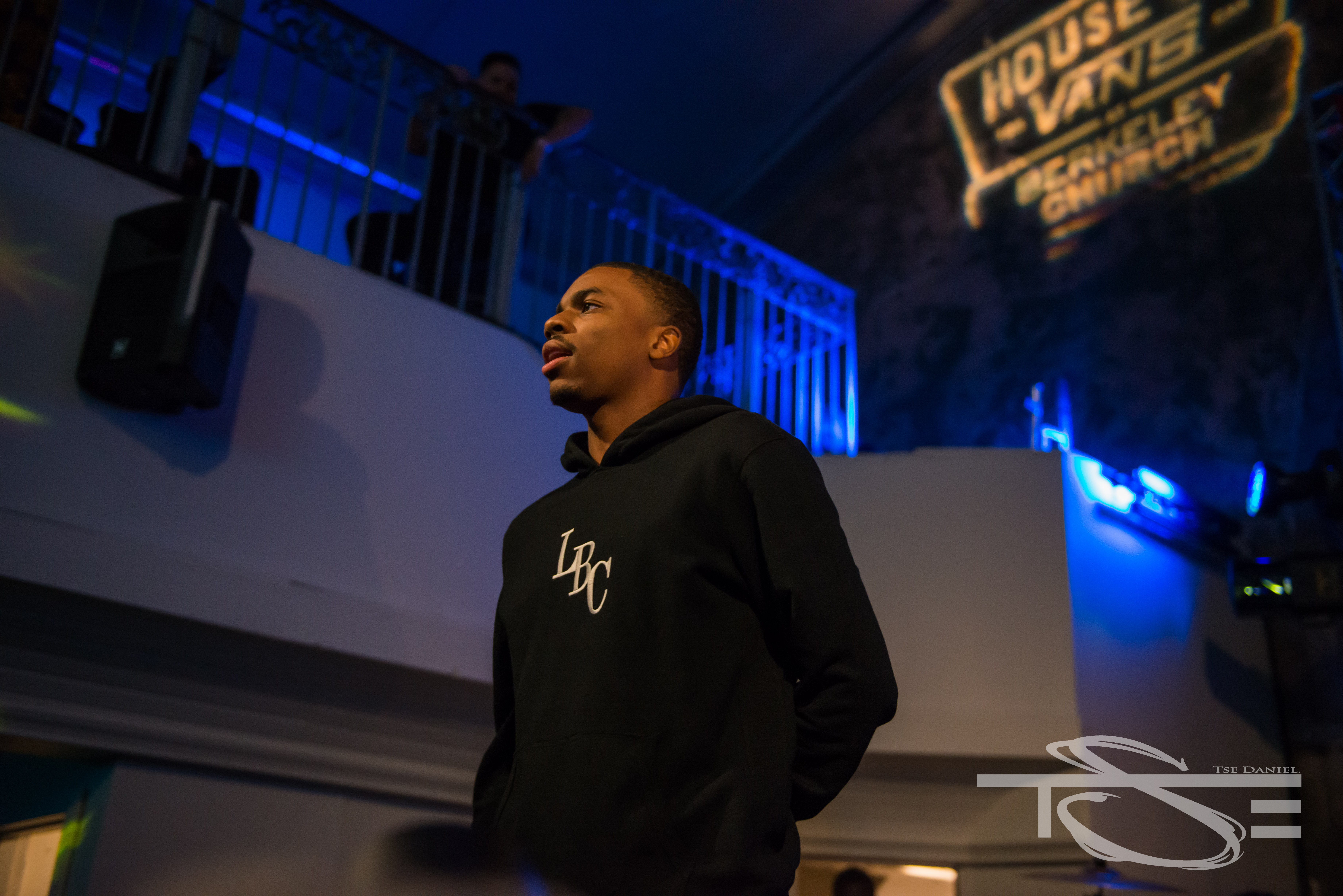 Vince Staples performing at NXNE in June 2015.